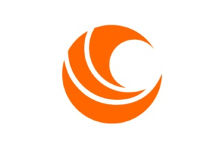 Flag of Miyata Nagano